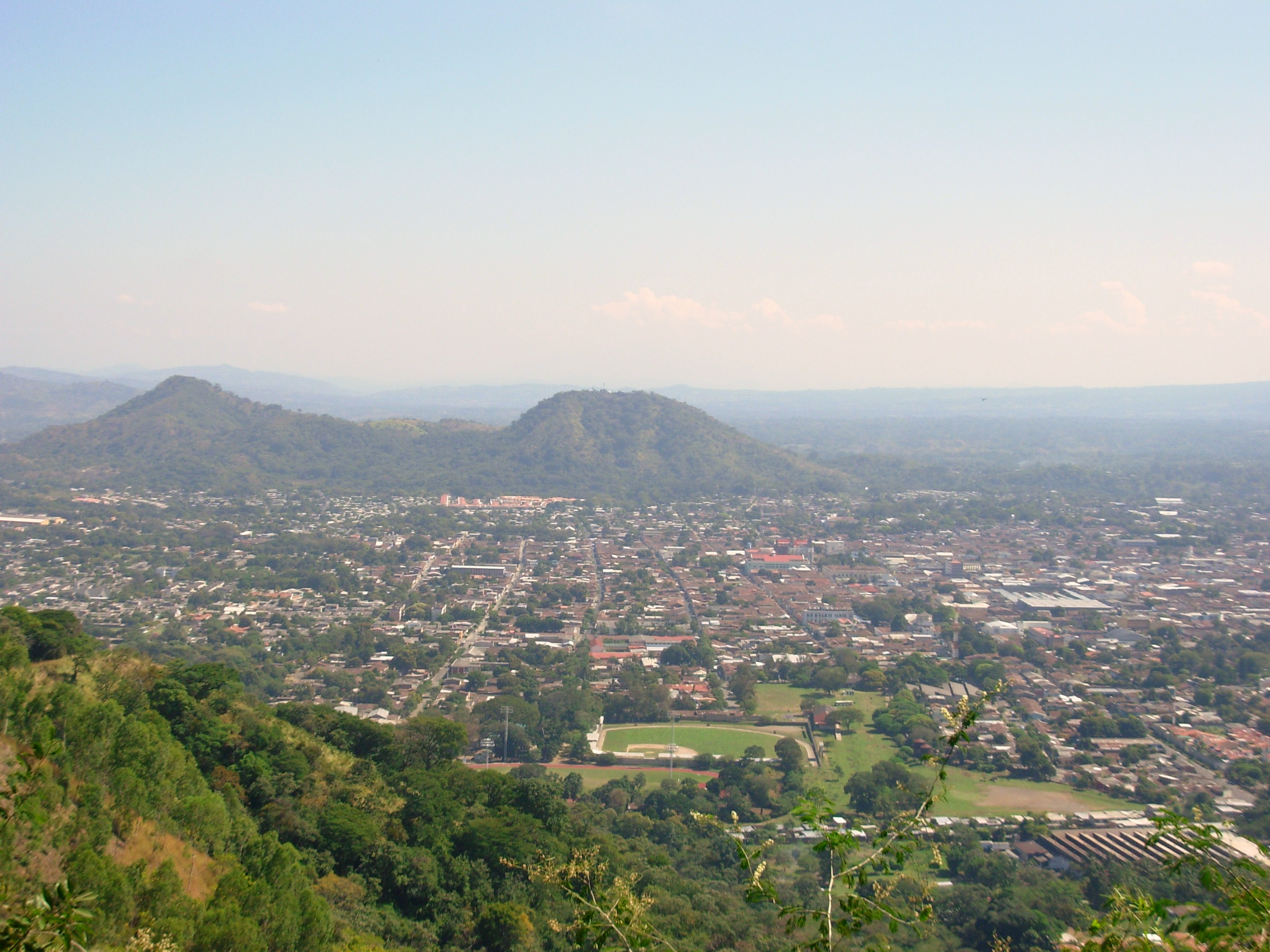 Santa Ana;Cerro Tecana & DownTown Dic07